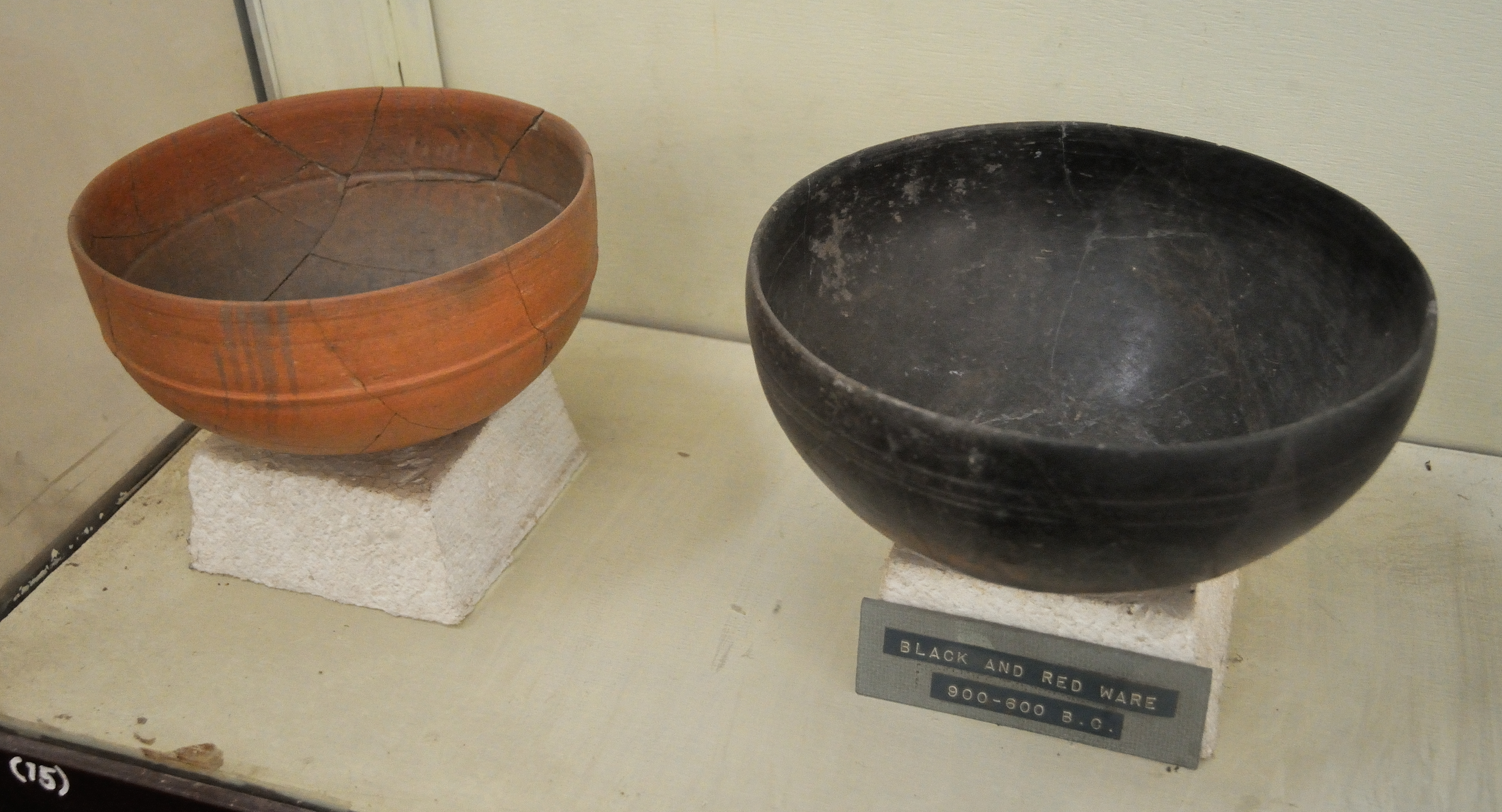 This artefact resides at the Government Museum, (hi: Rashtriya Sangrahalaya) formerly The Curzon Museum of Archaeology, Museum Road or Murari Lal Rajpal road, Dampier Nagar, Mathura, Uttar Pradesh, India. This museum is administrating by the State Government of Uttar Pradesh of India.